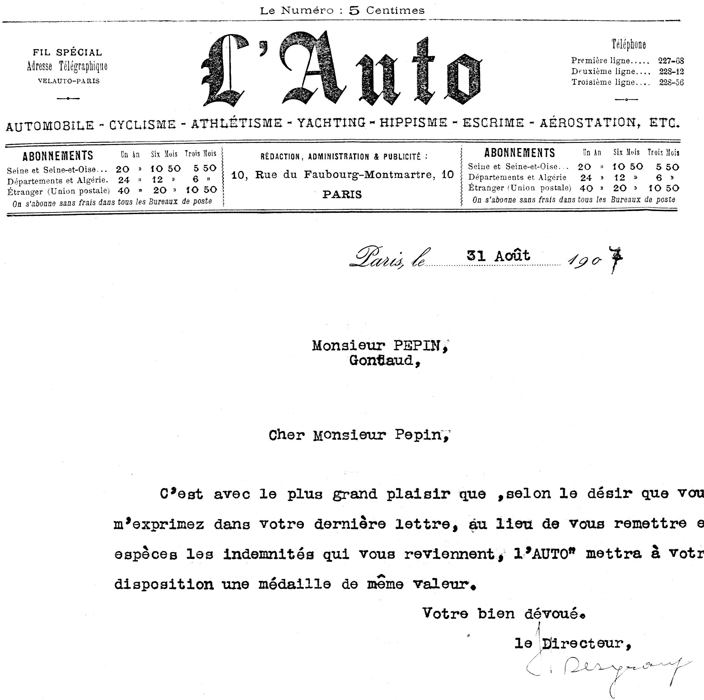 Reproduction of letter from the organisers of the Tour de France to Henri Pépin